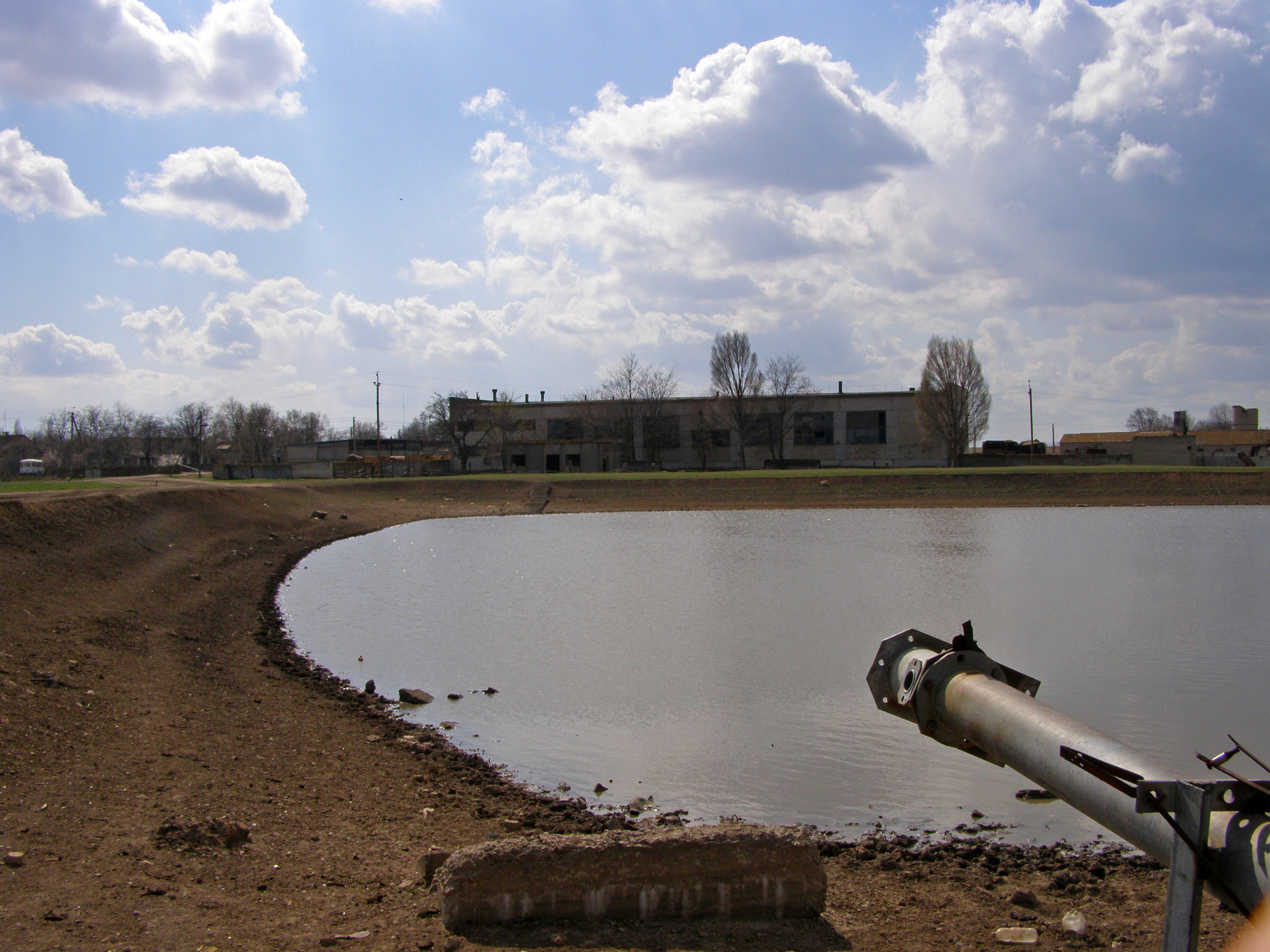 Pond in Lazurne village, Melitopol raion, Ukraine